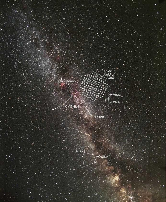 An image by Carter Roberts of the Eastbay Astronomical Society in Oakland, CA, showing the Milky Way region of the sky where the Kepler spacecraft/photometer will be pointing. Each rectangle indicates the specific region of the sky covered by each CCD element of the Kepler photometer. There are a total of 42 CCD elements in pairs, each pair comprising a square. Credit: Carter Roberts / Eastbay Astronomical Society.